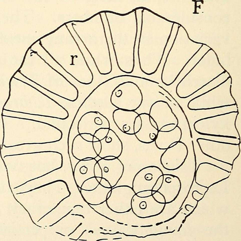 Identifier: structuredevelop00camp3 Title: The structure and development of mosses and ferns (Archegoniatae) Year: 1918 (1910s) Authors: Campbell, Douglas Houghton, 1859-1953 Subjects: Publisher: New York, Macmillan View Book Page: Book Viewer About This Book: Catalog Entry View All Images: All Images From Book Click here to view book online to see this illustration in context in a browseable online version of this book. Text Appearing Before Image: ' Text Appearing After Image: Fig. 221. — Trichomanes cyrtotheca. Development of the sporangium, X22S. A,Longitudinal section of very young receptacle with the first sporangia isp); B-D,successive stages of development seen in longitudinal section; F, horizontal sectionof nearly ripe sporangium; r, the annulus. receptacle Is still very young the tissue of the leaf immediatelyabout it forms a ring-shaped ridge, which grows up in the formof a cup-shaped indusium, which either remains as a tube X THE HOMOSPOROUS LEPTOSPORANGIATJE 383 (Trichomancs) or is divided into two valves (Hymenophyl-him). Many species of the former genus, however, show anintermediate condition, with the margin of the indusium deeplytwo-lipped. The first sporangia arise at the top of the placenta (Fig.221), but the apex itself does not usually develop into a spo-rangium. After the first sporangia have formed, new onescontinue to develop. Near the base of the placenta a zone ofmeristem is formed, which constantly contributes to its growth,and t